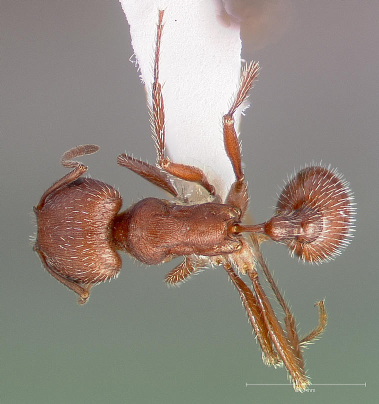 Dorsal view of ant Pogonomyrmex occidentalis specimen casent0005718.